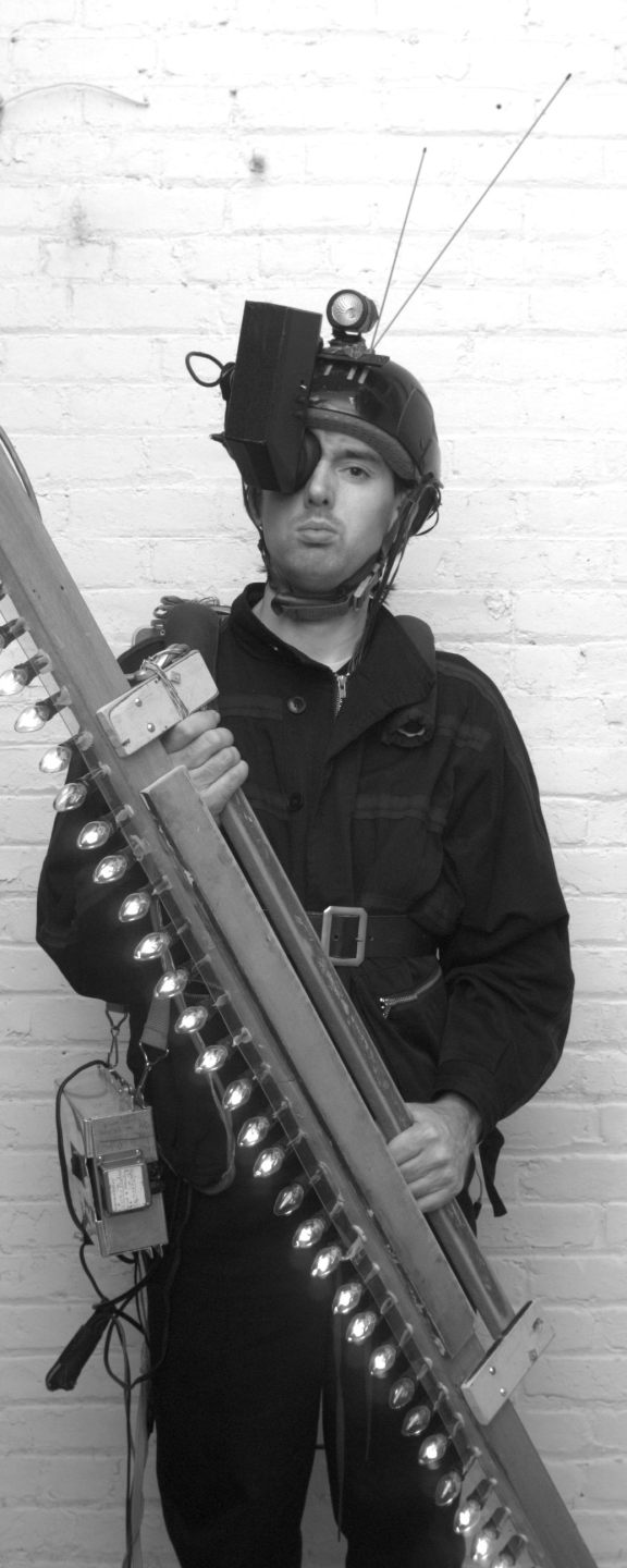 1970s lightspacer with 1981 wearcomp This 1981 wearable computer system combined a 1970s lightspacer apparatus for wearable computational photography. for more info. I license this self portrait picture to use in Wikipedia.